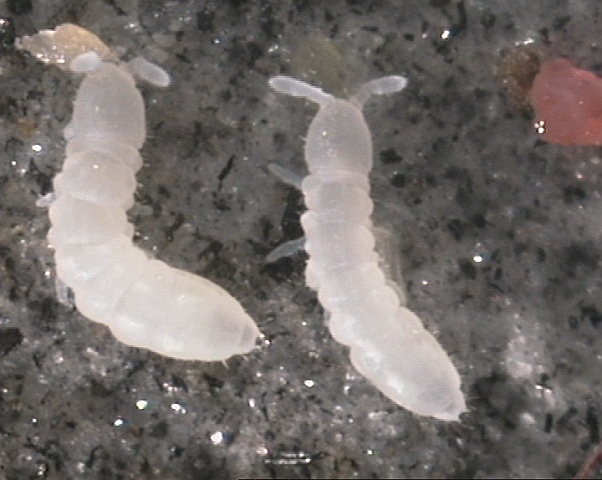 detailed image of Protaphorura armata (Tullberg, 1869) Börner, 1909 (Collembola: Onychiuridae), body length 2 mm